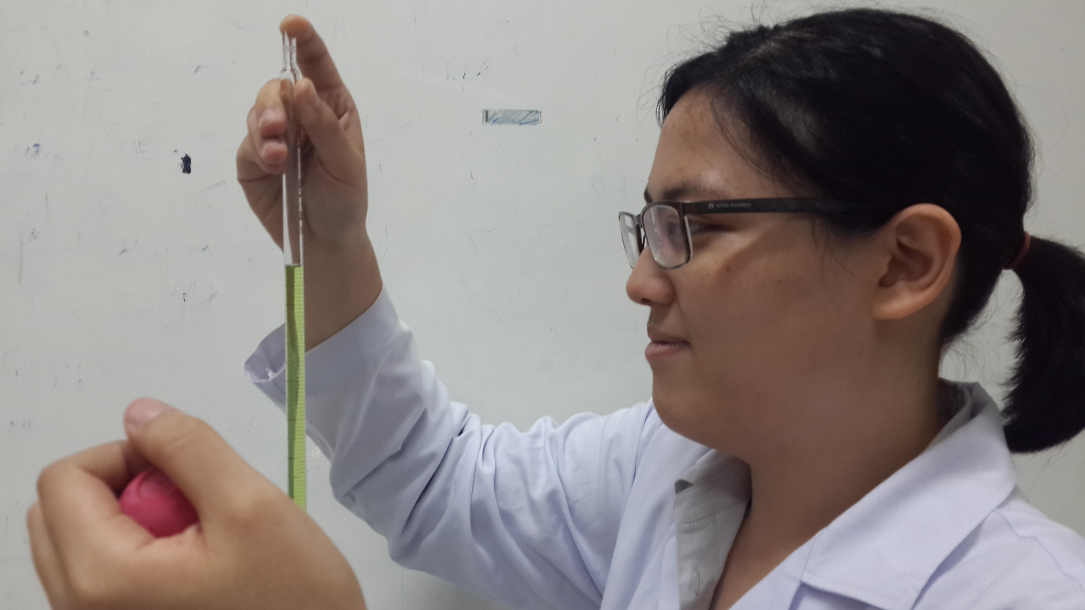 This is the image of a person reading the measurement on the pipette. Make sure to read the measurement at your eye level.